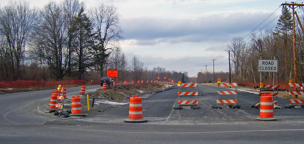 Photographed by Daniel Case 2007-02-12